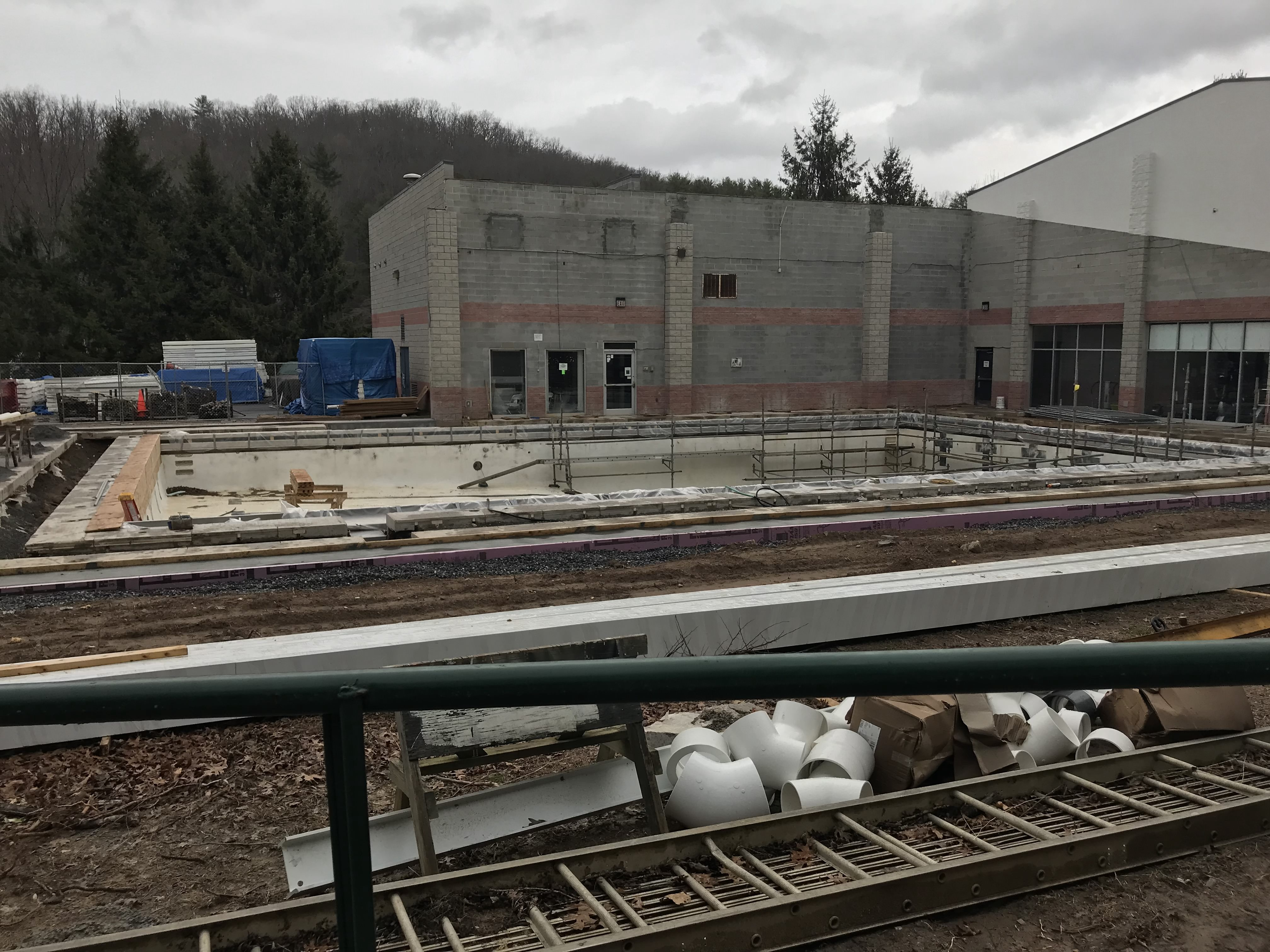 This is the progress of the Warren Wilson College pool construction as of February 2018. This photo is taken from the road between Devries Gym and Shepard House